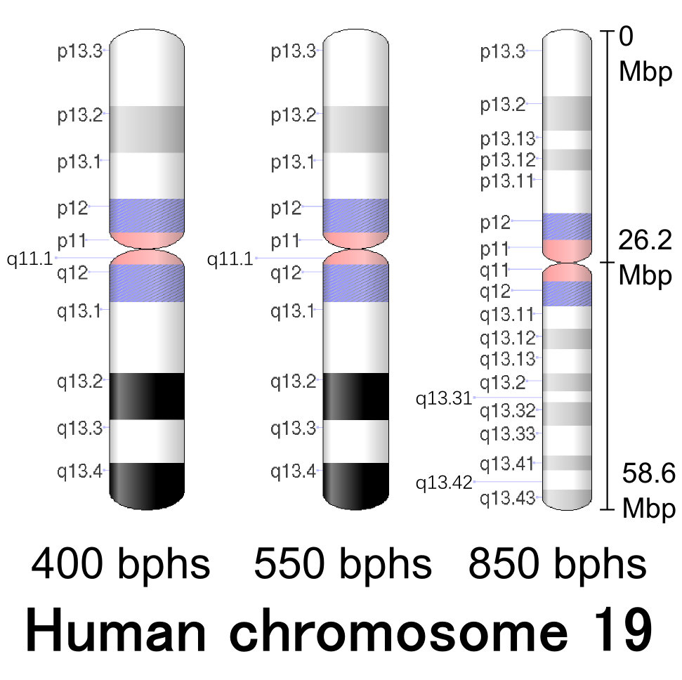 Ideograms of G-band pattern of human chromosome 19 in three different resolutions (400, 550 and 850 bphs, bands per haploid set). Different resolutions are corresponding to different band patterns observed through mitotic phase (about relation between banding resolution and mitotic phase, see, for example, Fig.3 in W Sethakulvichaia (2012)). Legend: Black and gray is Giemsa positive. Red is centromere. Light blue is variable region. Dark blue is stalk. At the right, centromere position (center) and q arm terminus position (bottom), counted from p arm terminus (top) in Mbp (mega base pairs), are labeled. Physical length (sometimes referred as "absolute length") is not labeled. Because physical length of chromosomes vary while mitosis. (typical human chromosome physical length is in the order of from several micrometers to ten and several micrometers. See, for example, Category:Human chromosome images with scale bars.).